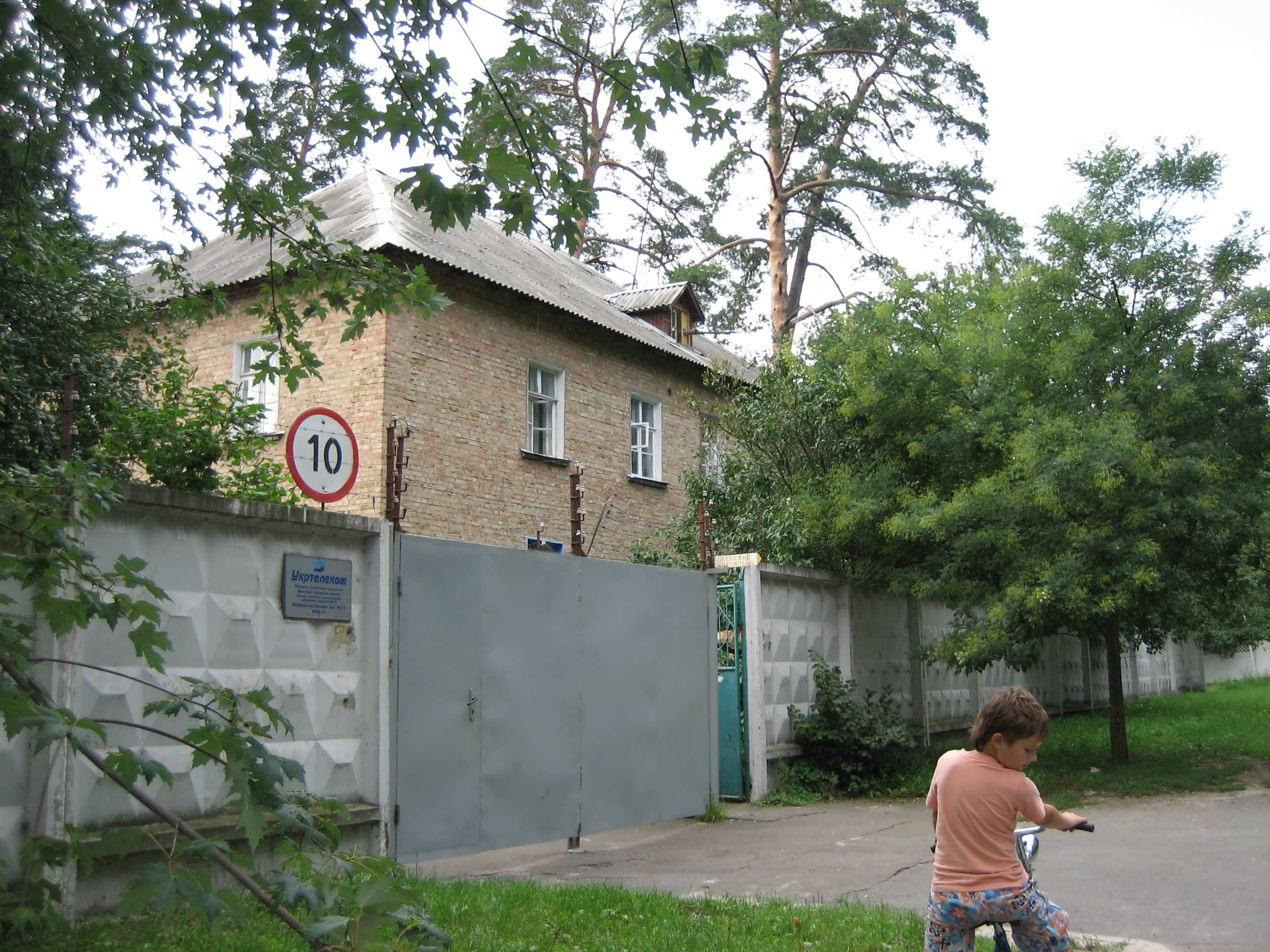 Zhyvopysna St., Sviatoshyn, Kiev, Ukraine